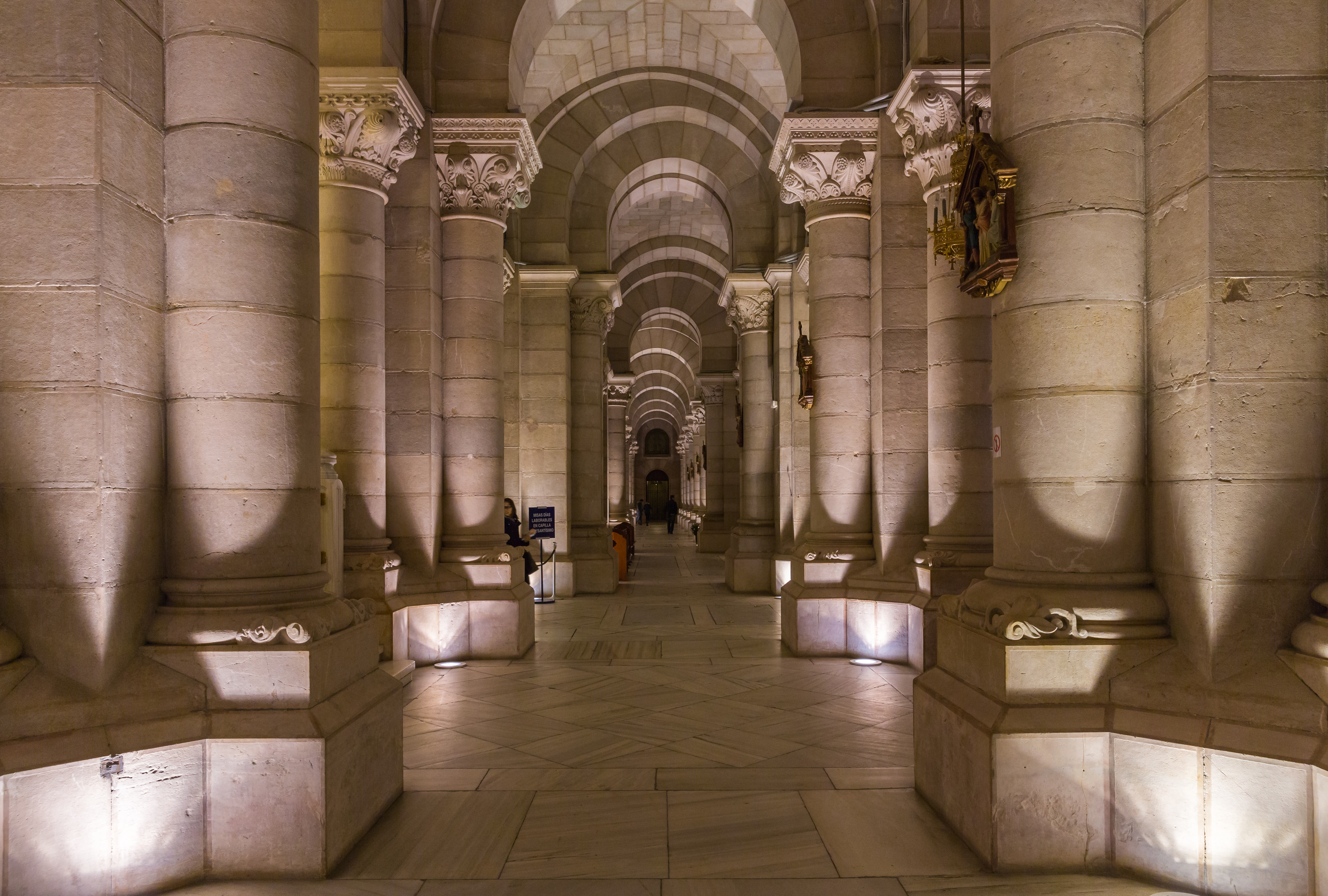 Crypt of the Almudena Cathedral, Madrid, Spain